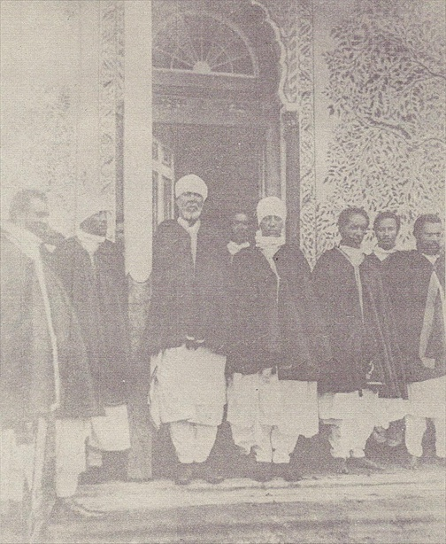 Left to right : Negadras Yegezu Behabté, Fitawrari Habte Giyorgis Aba Mechal, Ras Bitweded Tessema Nadew, Negadras Hayle Giyorgis, Abéto (later Lej) Eyasu, Wagseyum Kebede, Dejazmatch Gugsa Araya and Dejazmatch Gebre Selassie. Titles are the one at the time of the picture.